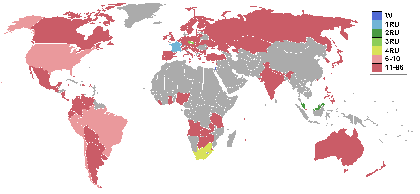 image created by Joey80